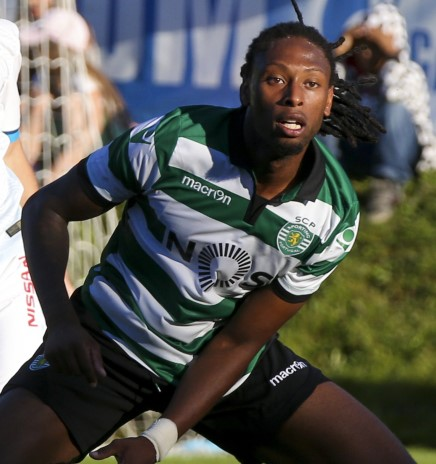 Rúben Semedo